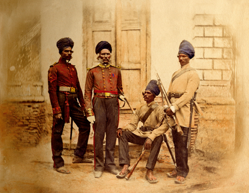 Madras Sappers & Miners, Lucknow, Felice Beato, albumen print, 1857-58, 164 x 200 mm A tinted photograph of a group of four armed soldiers in uniform in front of the Jal Pari Gateway in the Qaisar Bagh complex. ‘C’ Company of Madras Sappers & Miners joined Sir Colin Campbell in the second relief of Lucknow in November 1857.